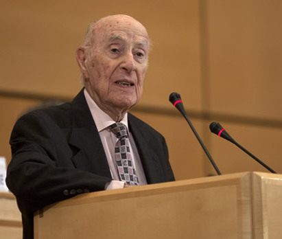 Mr. Julio Lacarte Muró, former Minister of Industry and Commerce of Uruguay, during the 28th Special Session of the TDB on the occasion of UNCTAD's 50th anniversary celebrations